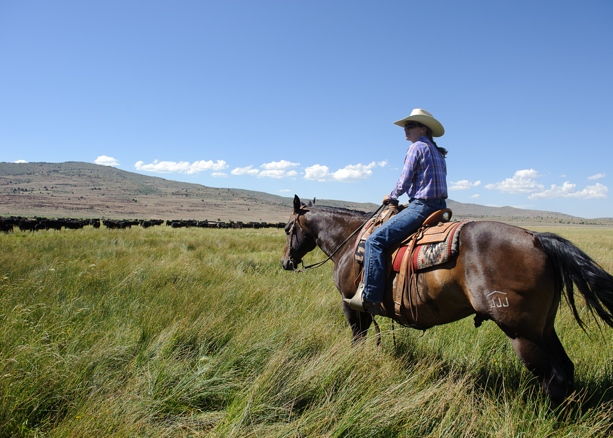 Petes Creek Cattle Ranch on Petes Creek northeast of Susanville, California, USA